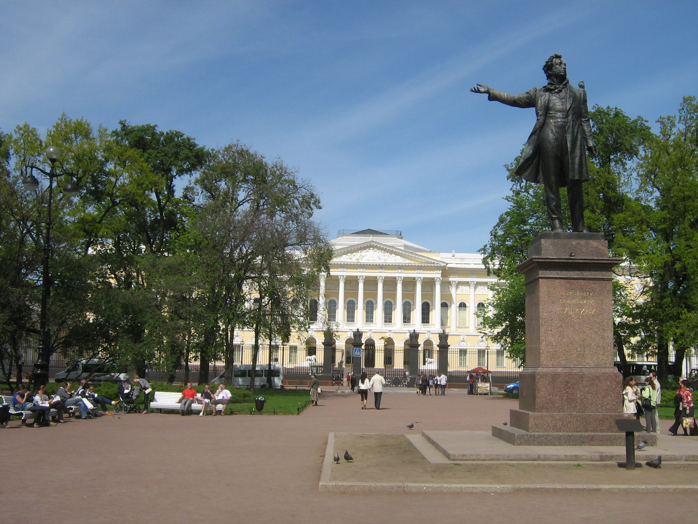 Saint Petersburg (Russia), Nevsky Avenue.